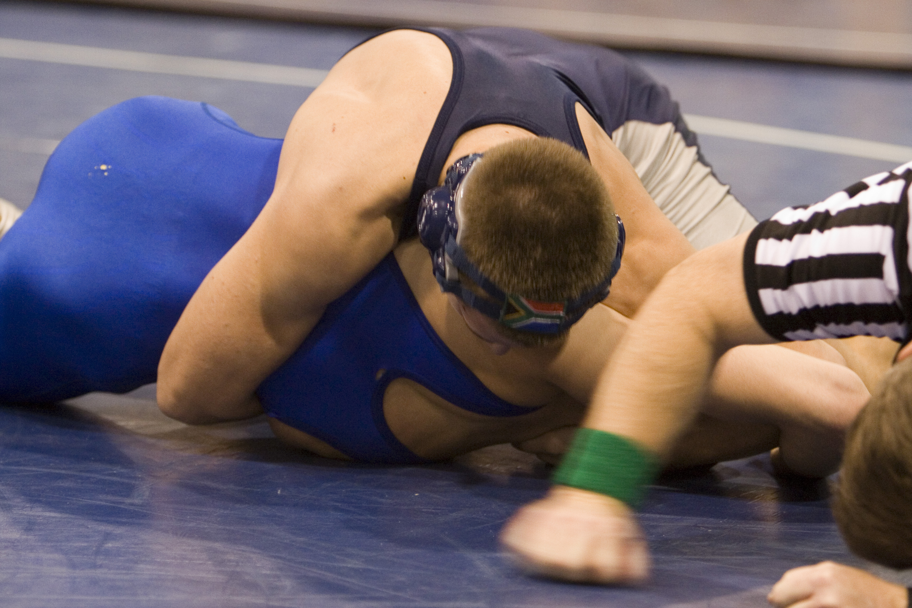 Two high school students wrestling (collegiate, scholastic, or folkstyle) in the United States. Originally uploaded by Wikiman86 on the English Wikipedia project at